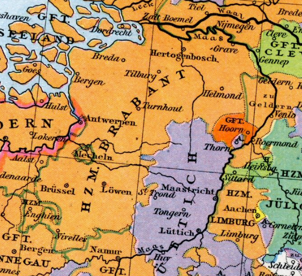 Duchy of Brabant and surrounding territories in the 15th century